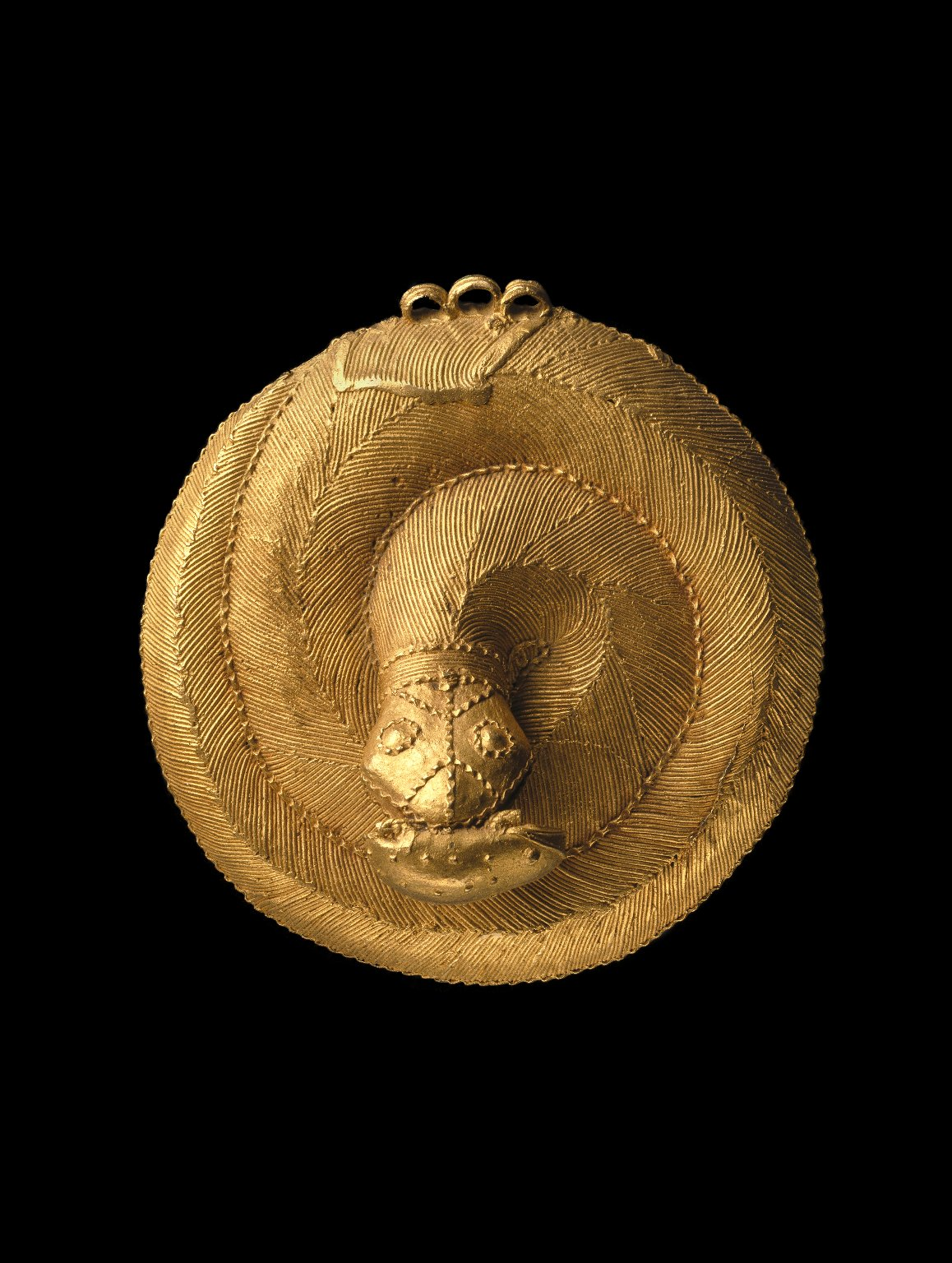 A coiled snake with head facing downward, holding a toad in its mouth. It was cast cire perdue and constructed of fine adjacent threads. There are 3 hooks for suspension. Condition: good, except for crude repair to metal next to supporting loops.